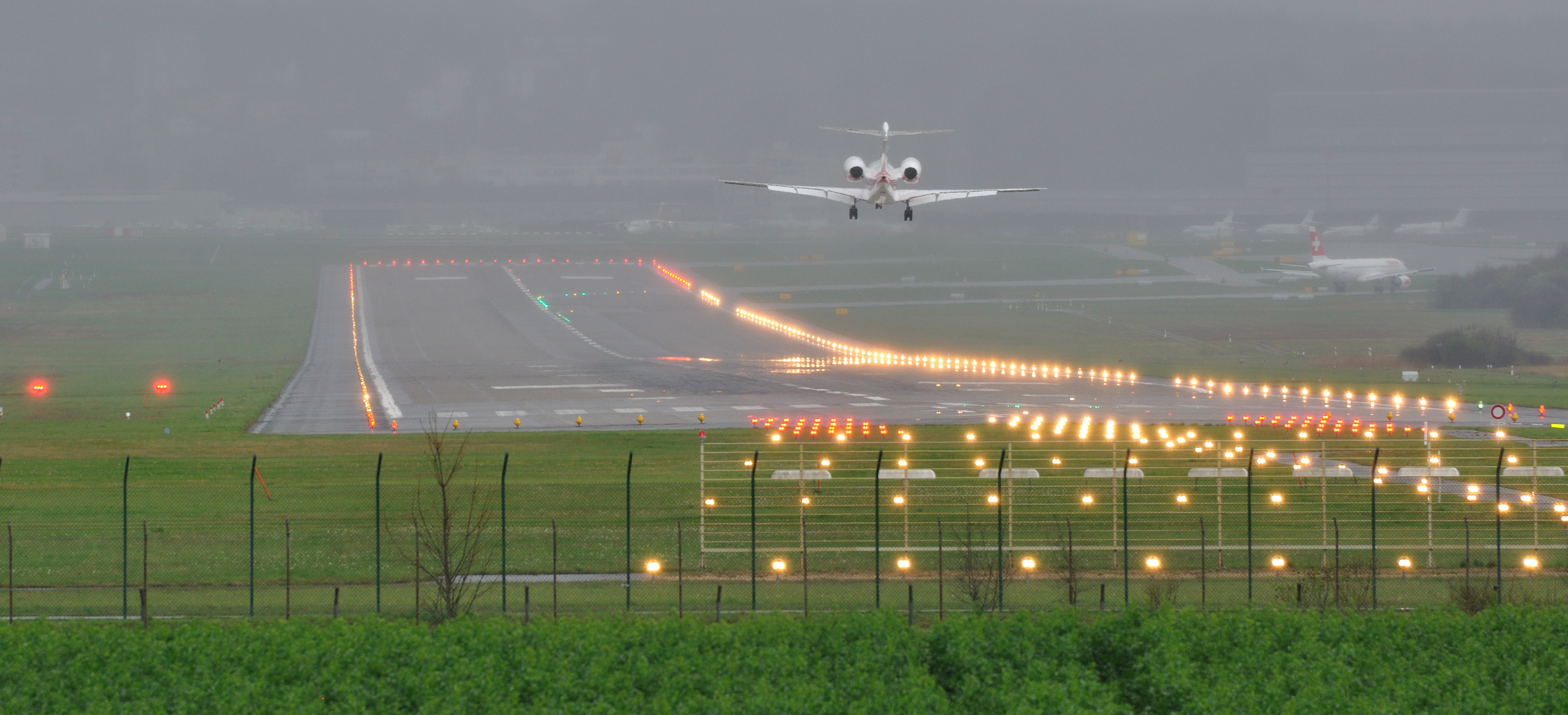 Switzerland, Canton of Zürich, spotting in the approach area of runway 14 of Zurich International Airport on a day with frequent showers.